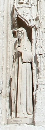 Saint Agnes de Poitiers, statue of late 19th century at Ste. Radegonde, Poitiers ([1])